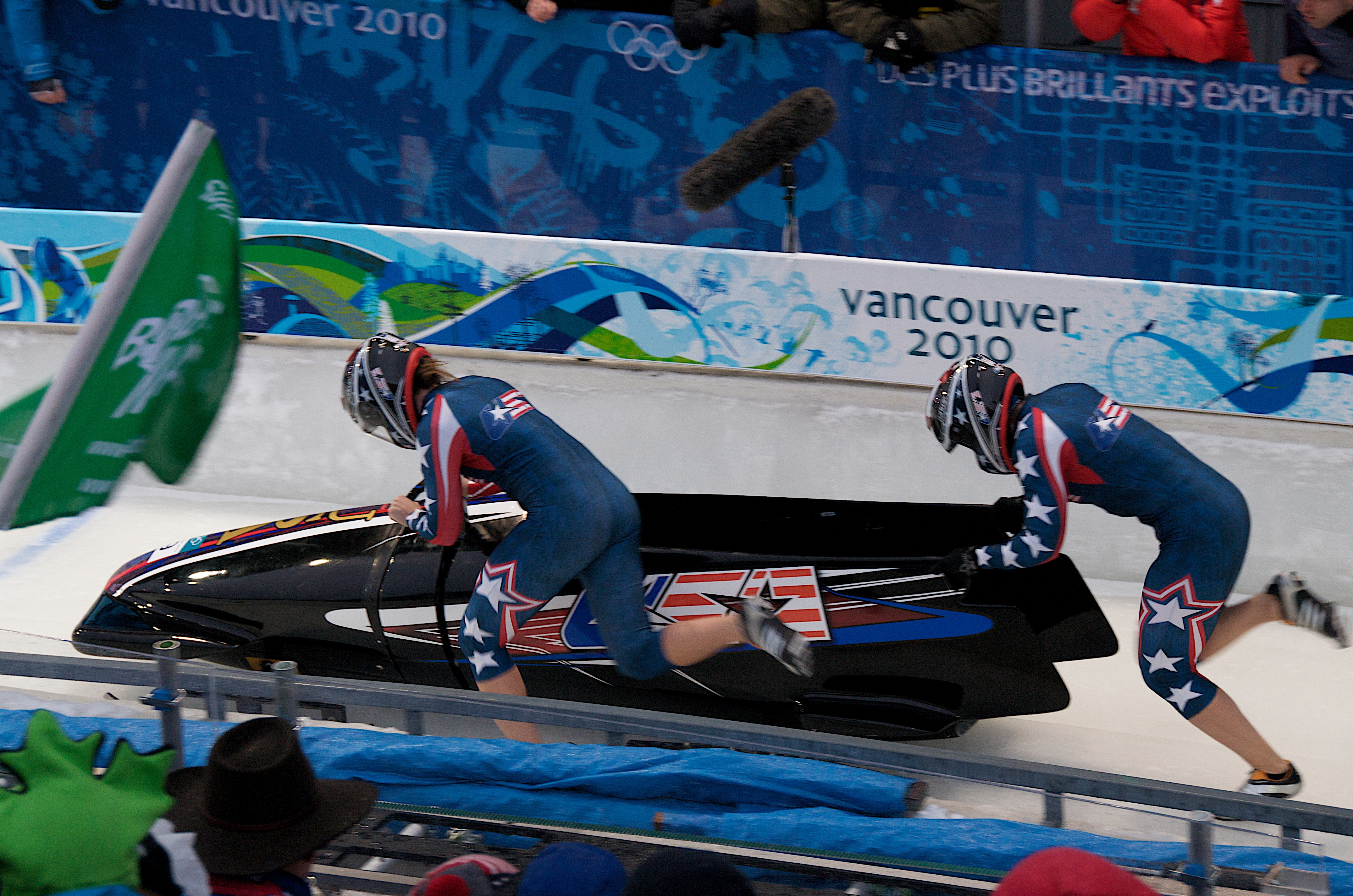 Women's Bobsleigh Final on Day 13 of the Vancouver 2010 Winter Olympics. Bree Schaaf and Emily Azevedo/